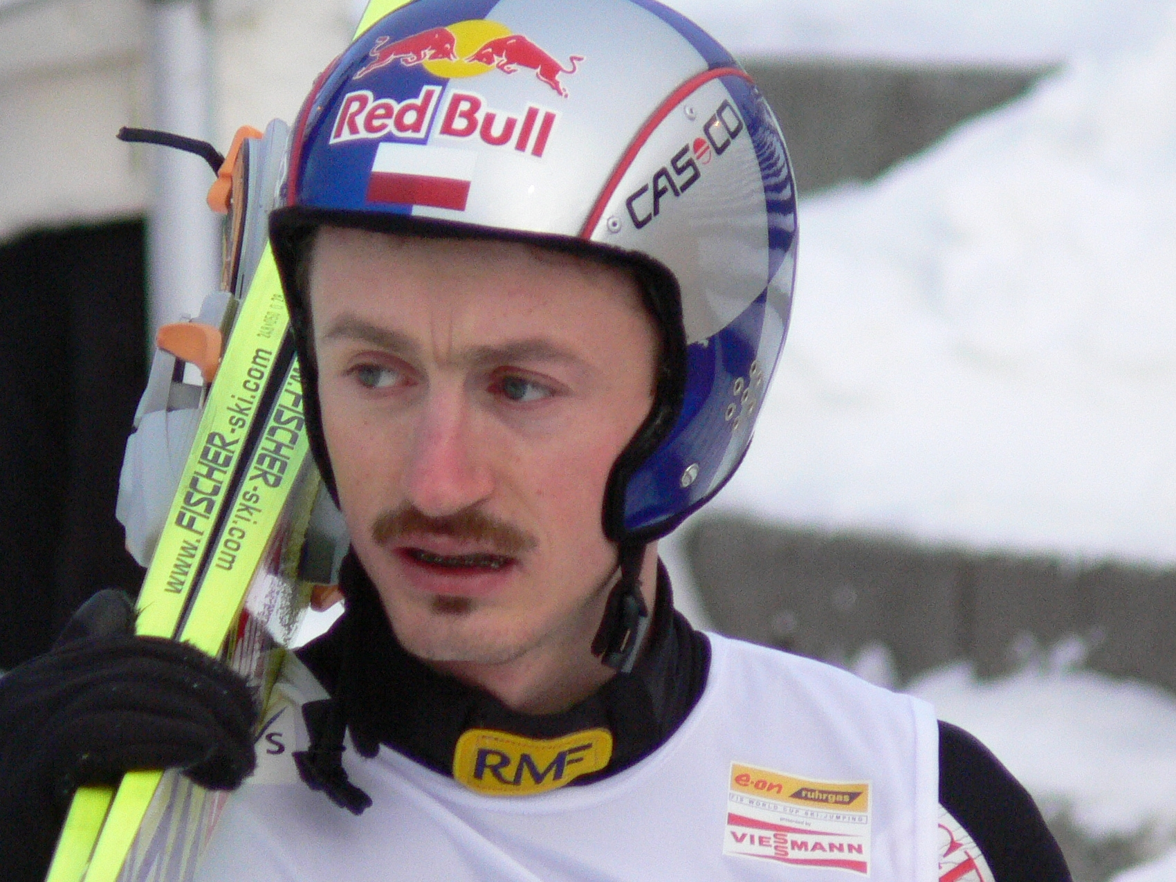 Adam Małysz ; taken at the annual ski jumping event in Holmenkollen in 2006.